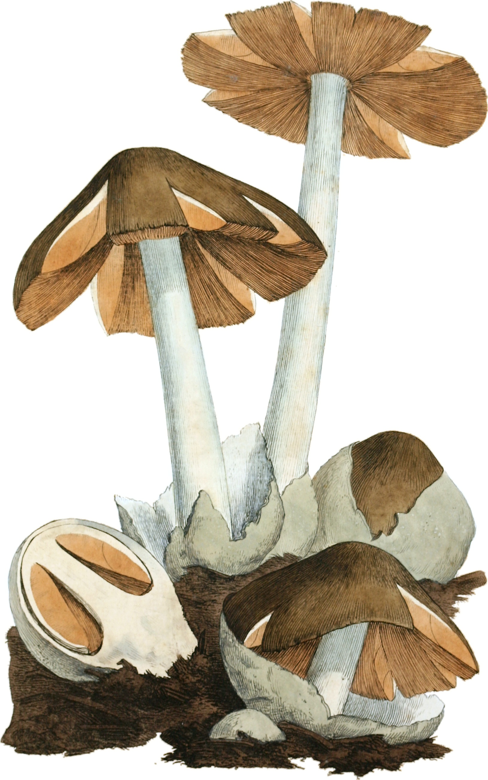 This is plate 1 from James Sowerby's Coloured Figures of English Fungi or Mushrooms. See below for more details.